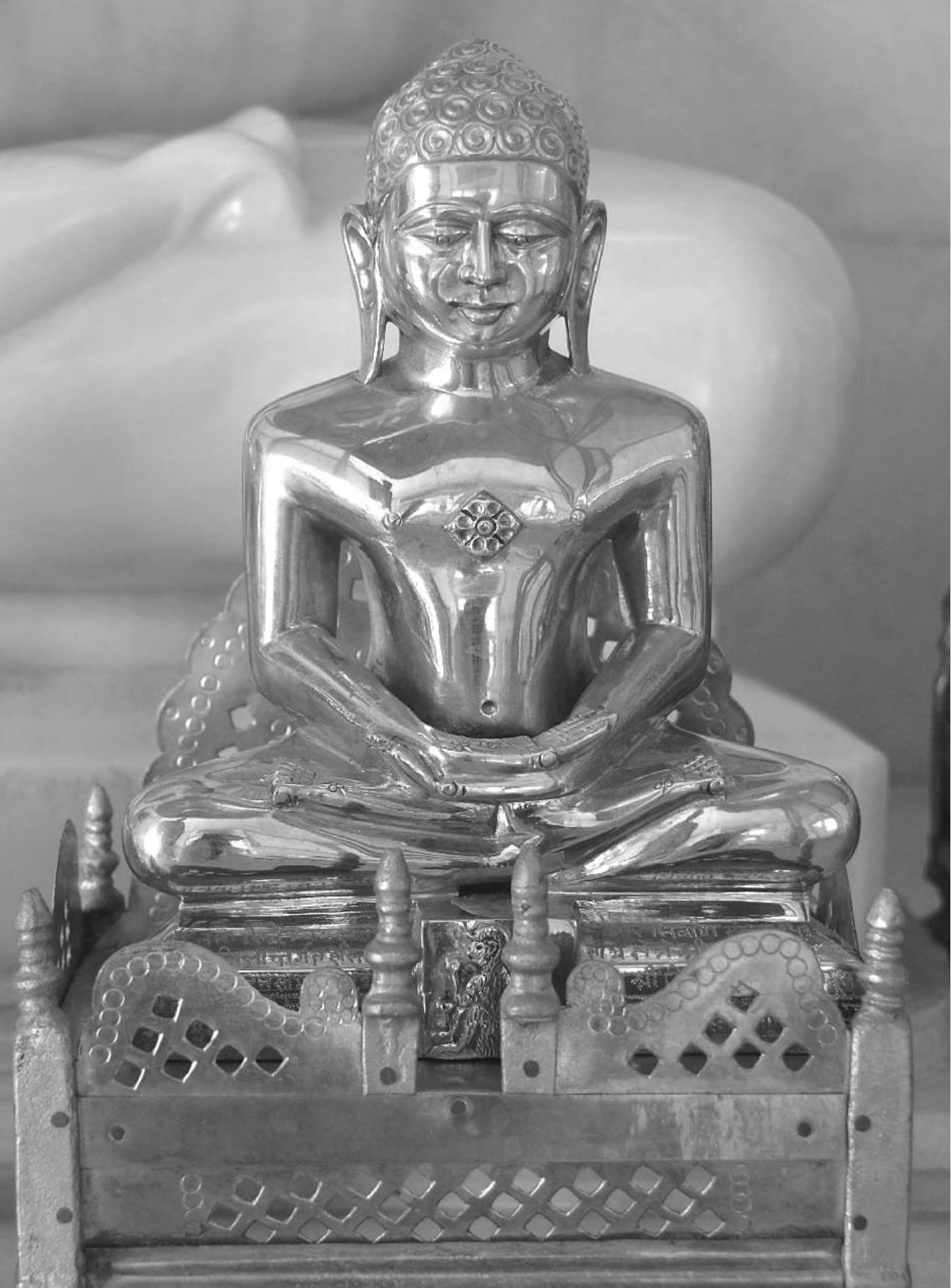 Photo from page-21 of the English translation of Acarya Samantabhadra’s Svayambhustotra: Adoration of The Twenty-four Tirthankara. Book is non-copyright and available in public domain.